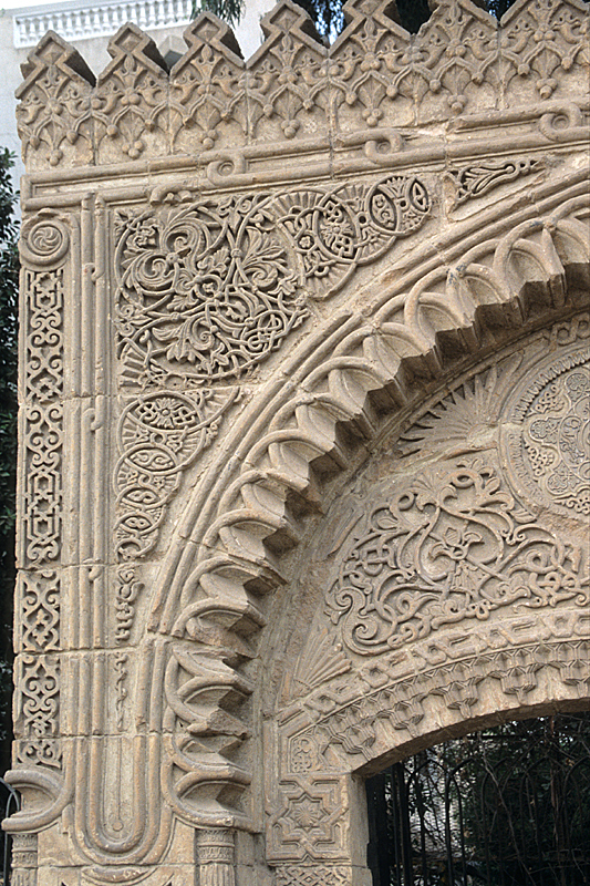 Detail of the gate of the house of Suleiman Pasha el-Faransawi, Lycée de Maadi, el-Maadi, Egypt